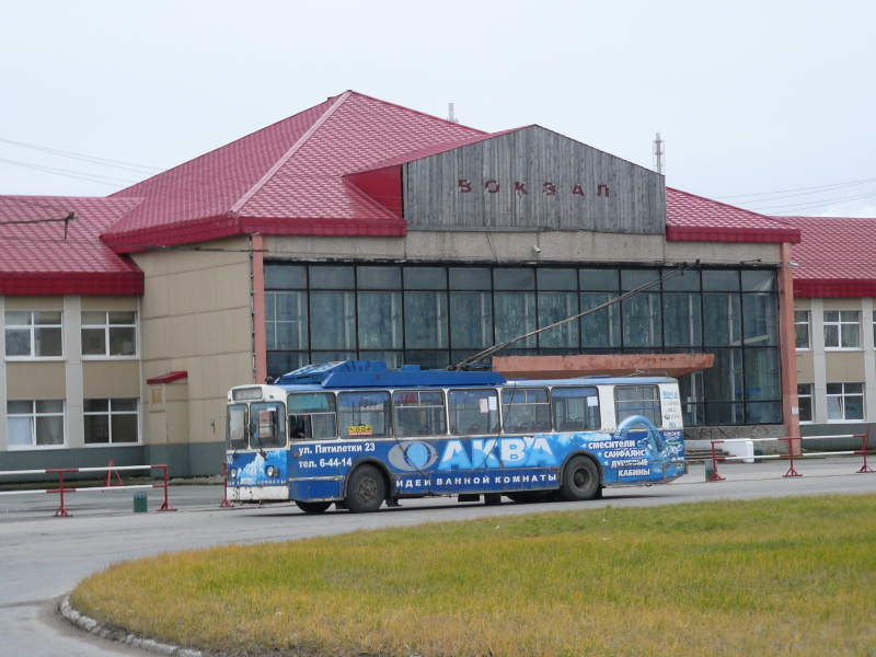 BTZ trolleybus (#140, line #6) near the railway station in Berezniki